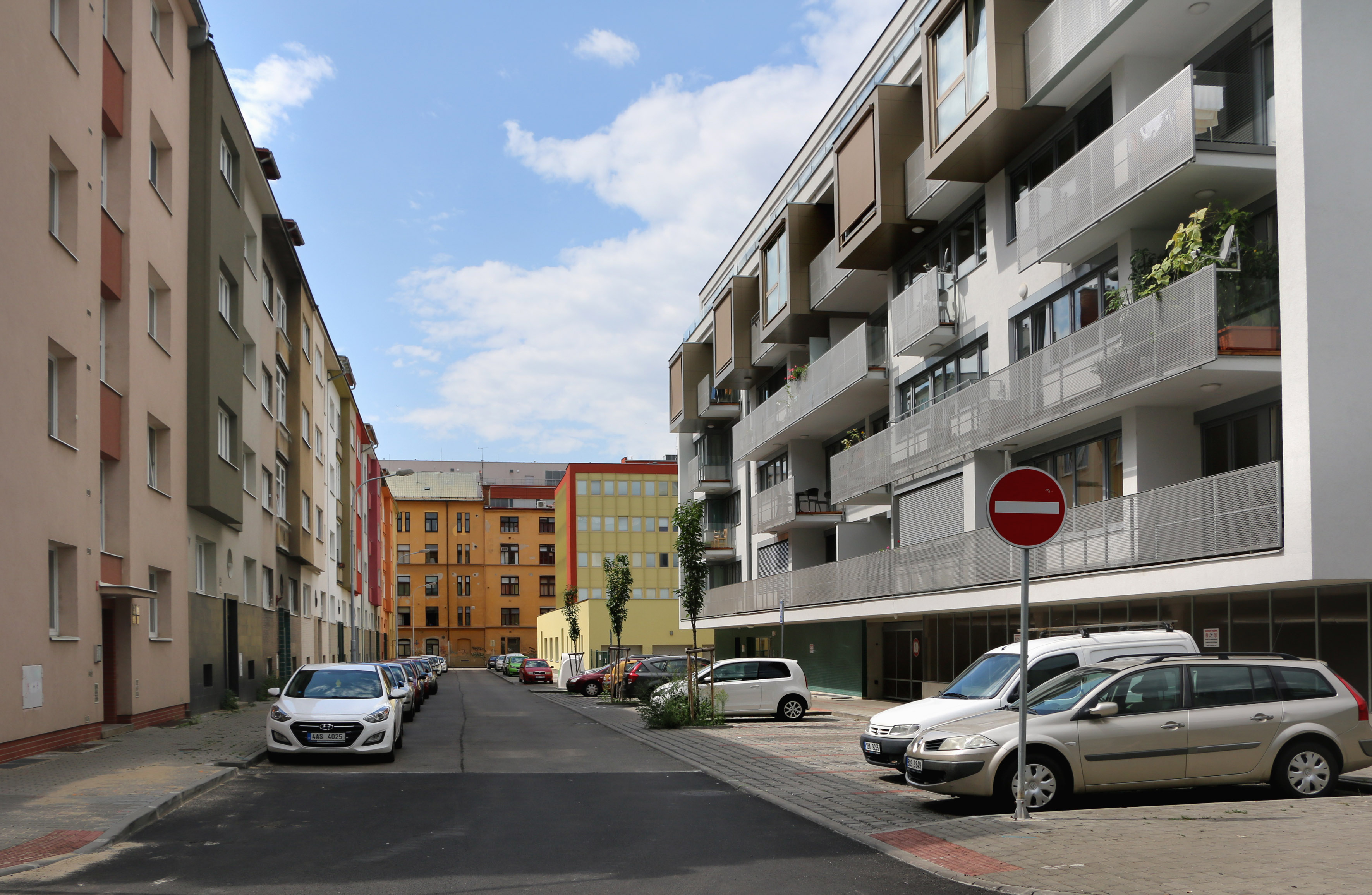 Jircháře street, Brno.